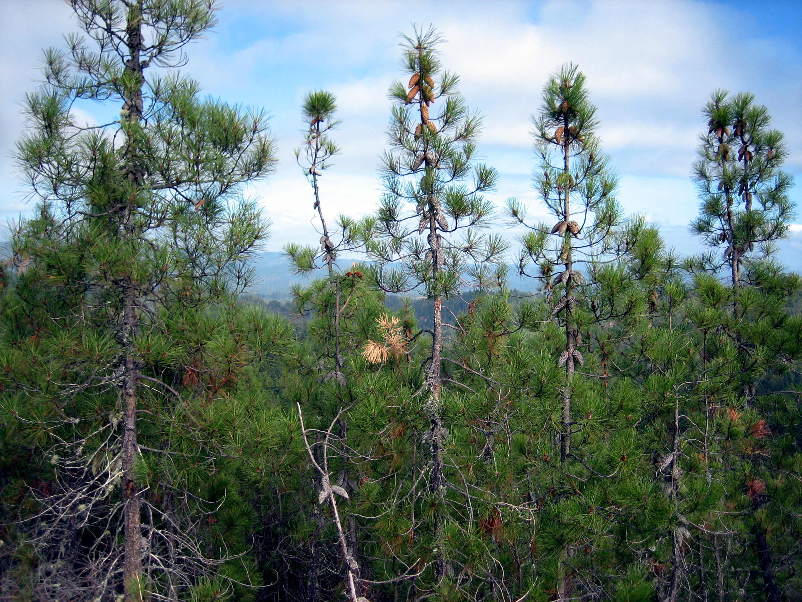 Knobcone Pine Pinus attenuata, Big Basin Redwoods State Park, California